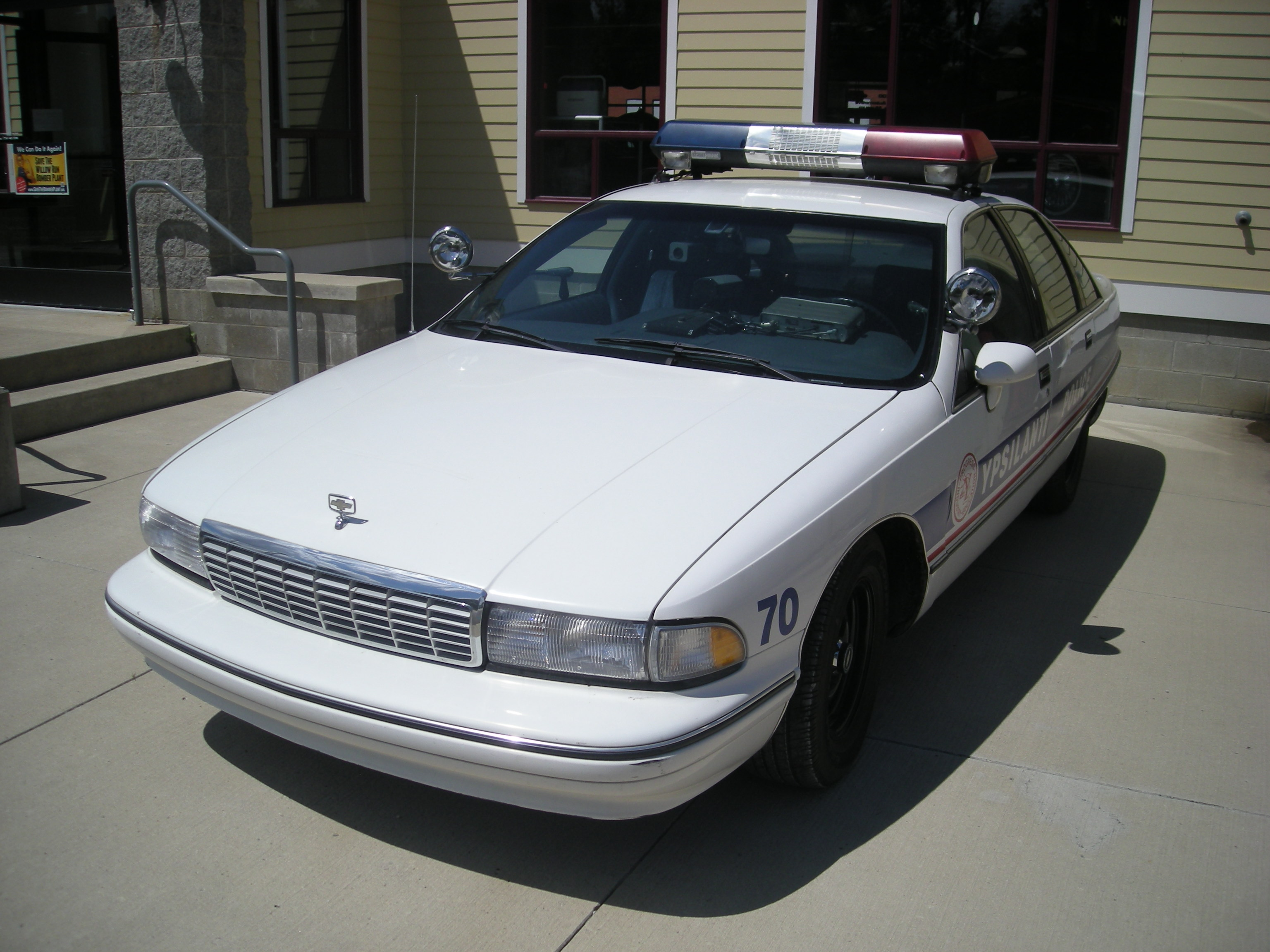 A 1991 Chevrolet Caprice 9C1 Police Package at the Ypsilanti Automotive Heritage Museum in Ypsilanti, Michigan (United States).